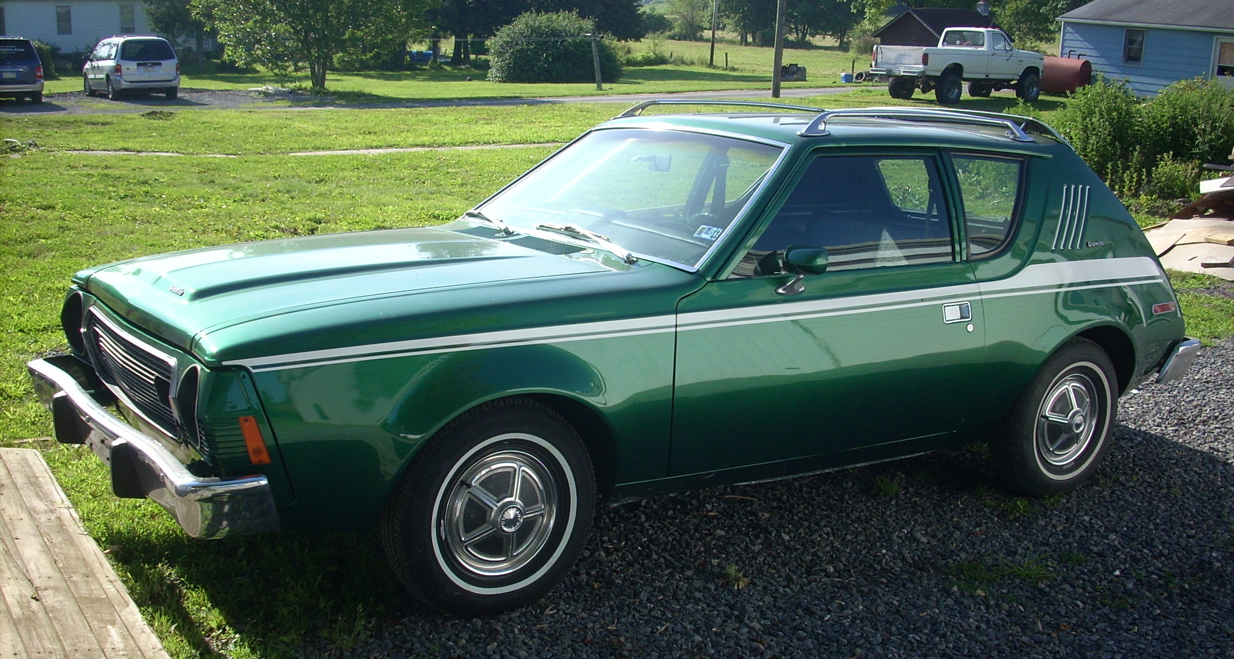 A green AMC Gremlin found in Hartleton, Pennsylvania.